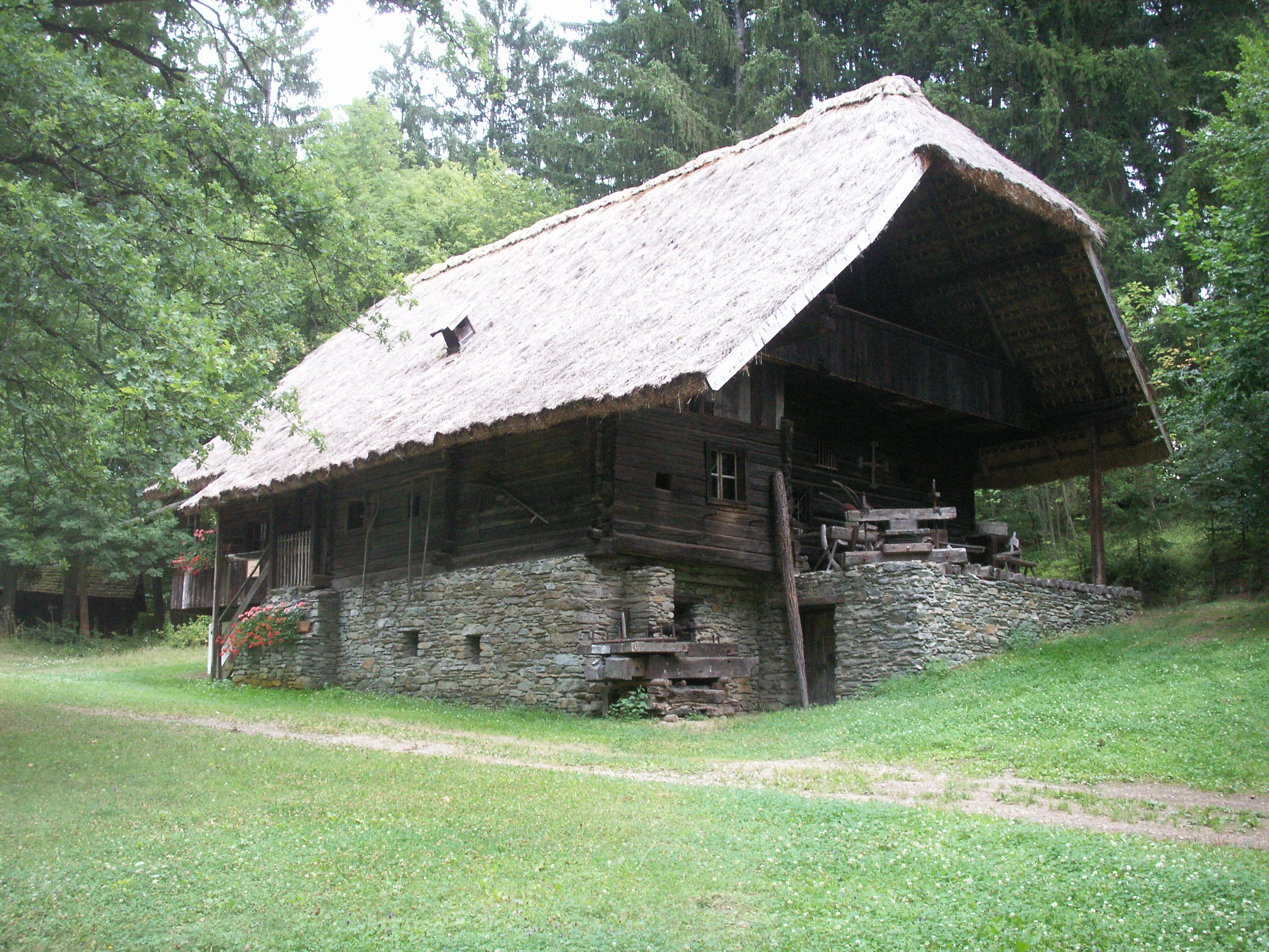 Old farmbuilding Hanebauer-Haus (Hanebauer-Kogler) which was transferred from St. Jakob ob Gurk to the open-air museum Maria Saal. St. Jakob ob Gurk is situated in the Gurktal Alps Carinthia / Austria / EU. This house is the oldest type of house in the museum.